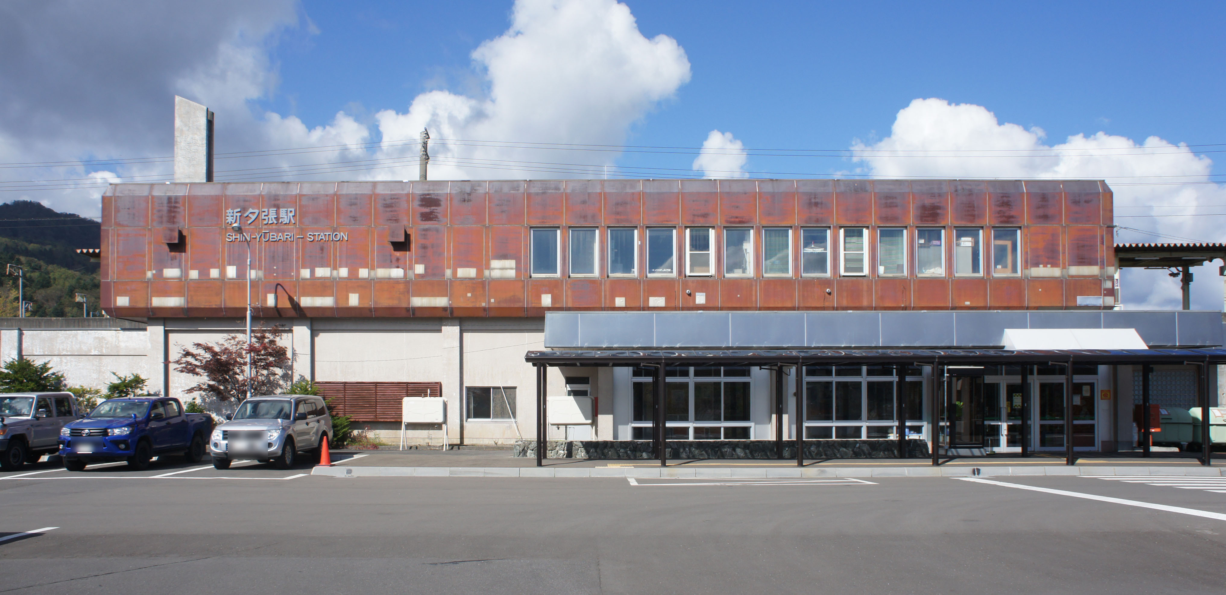 Station building of JR Sekisho-Line Shin-Yubari Station